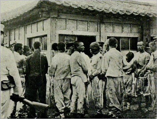 Korea Imperials army is being disarmed by the Japanese army.